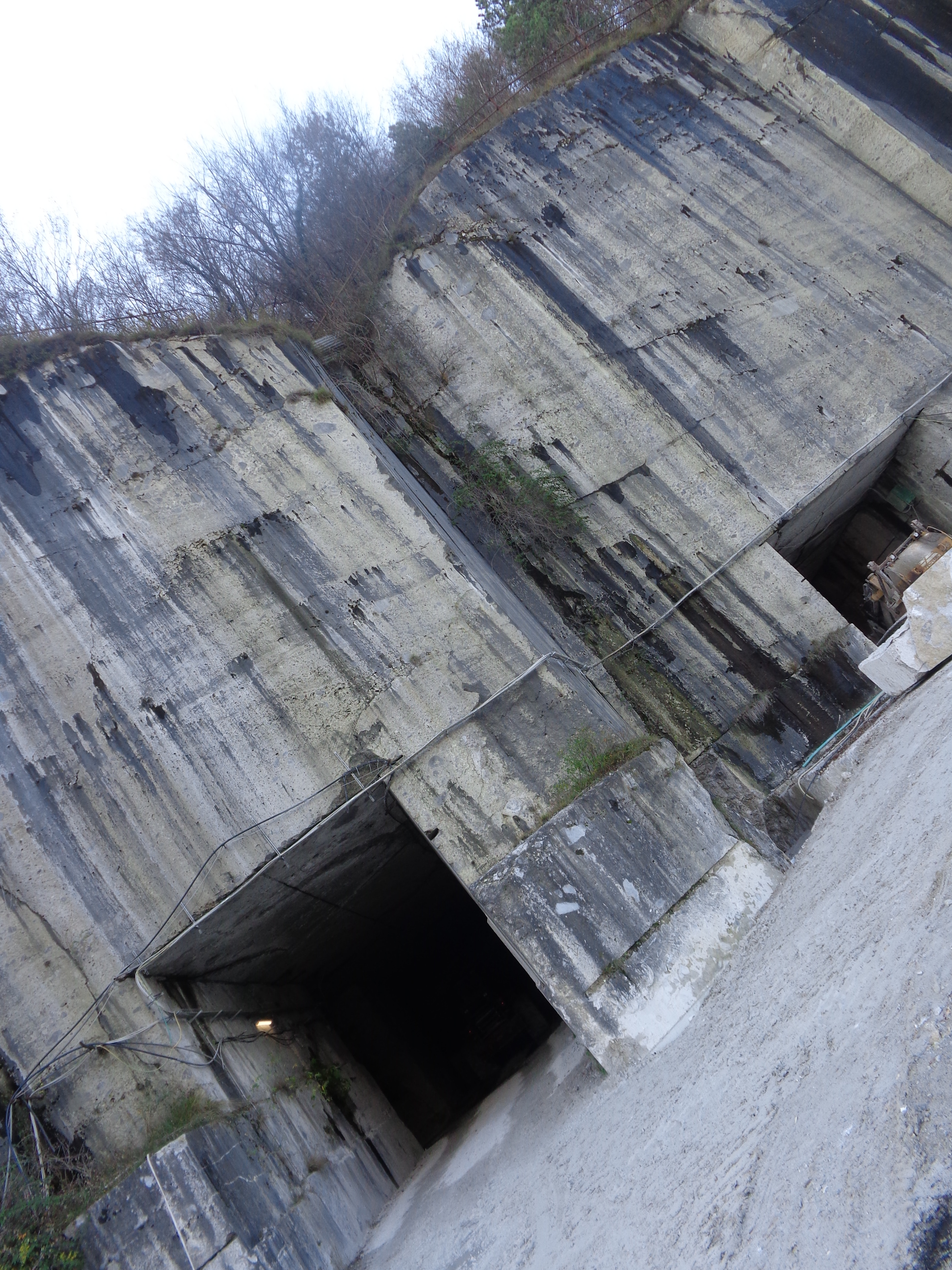 Underground stone quarry on the North-West shores of lake Iseo, Italy, by the Marini Marmi company